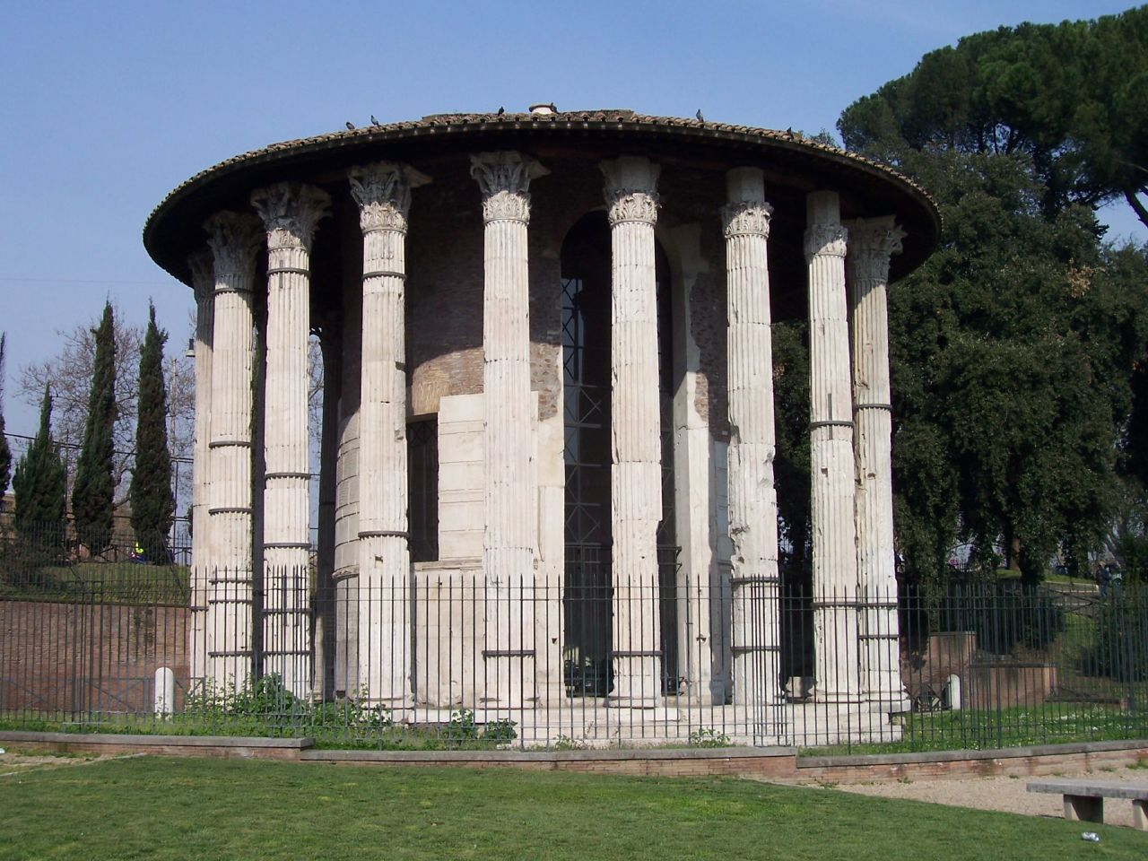 Temple of Portunus, Piazza Bocca della Veritò, Roma, Italy.